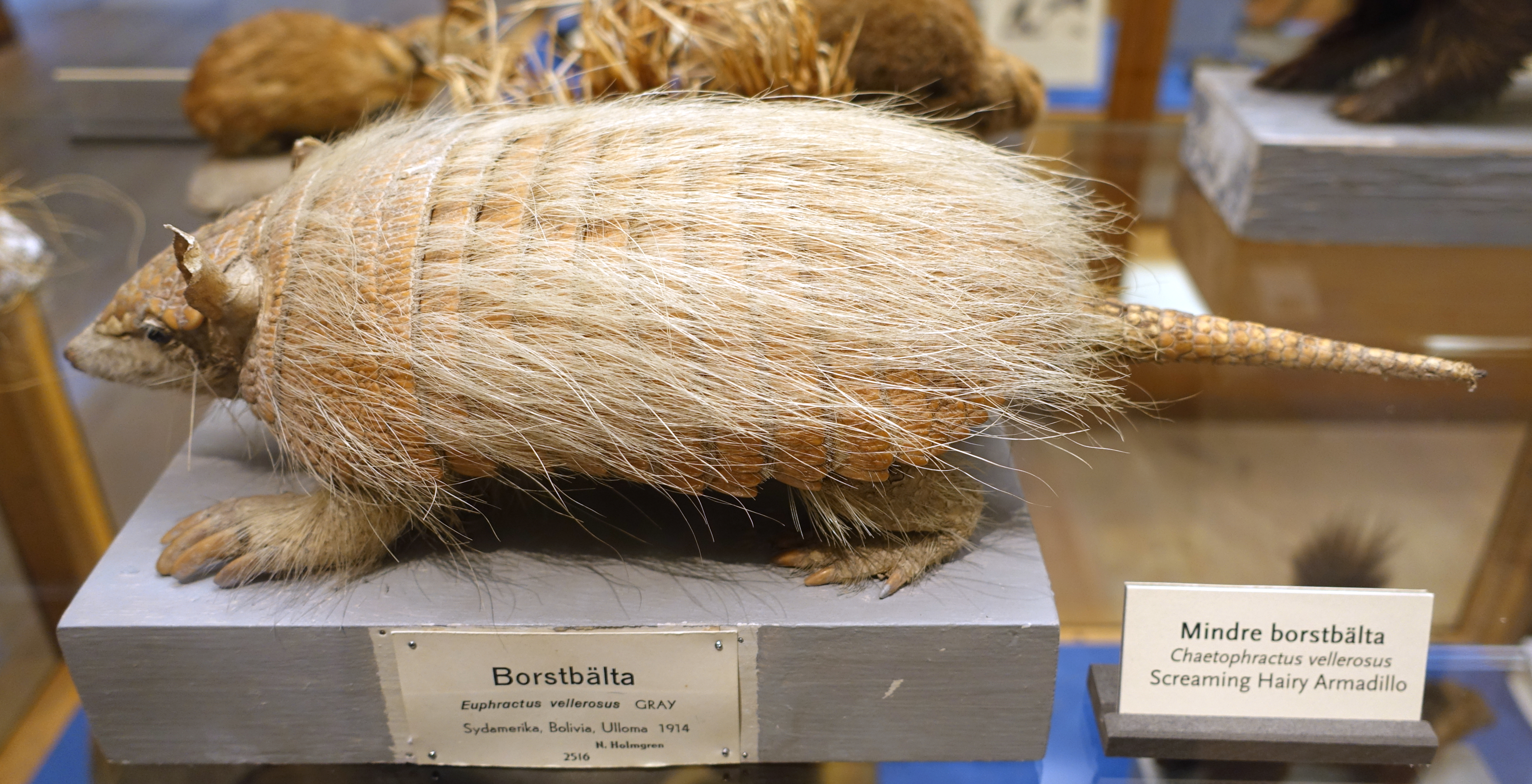 Exhibit in the Swedish Museum of Natural History - Stockholm, Sweden.